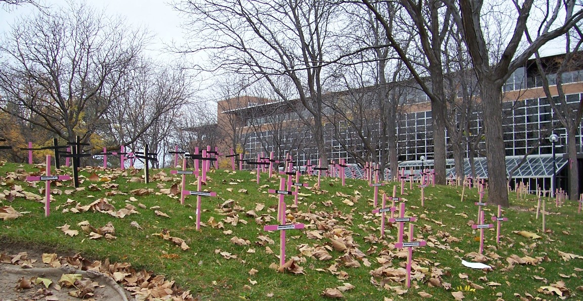 Over 600 crosses set up in front of the student union at the University of Utah in remembrance of women who were killed near the U.S./Mexico border. Signs by the crosses say "Since 1993, 600 girls and women have been killed in Ciudad Juárez and Chihuahua City, Mexico. Most of the victims were young and poor, and many were sexually assaulted prior to their deaths. The authorities have done little to investigate or prosecute those responsible. In her film 'Senorita Extraviada' Dolores Portillo explores the world of Juarez Mexico in order to bring to light those deplorable acts of violence against women." This picture was taken on Dia de los Muertos.